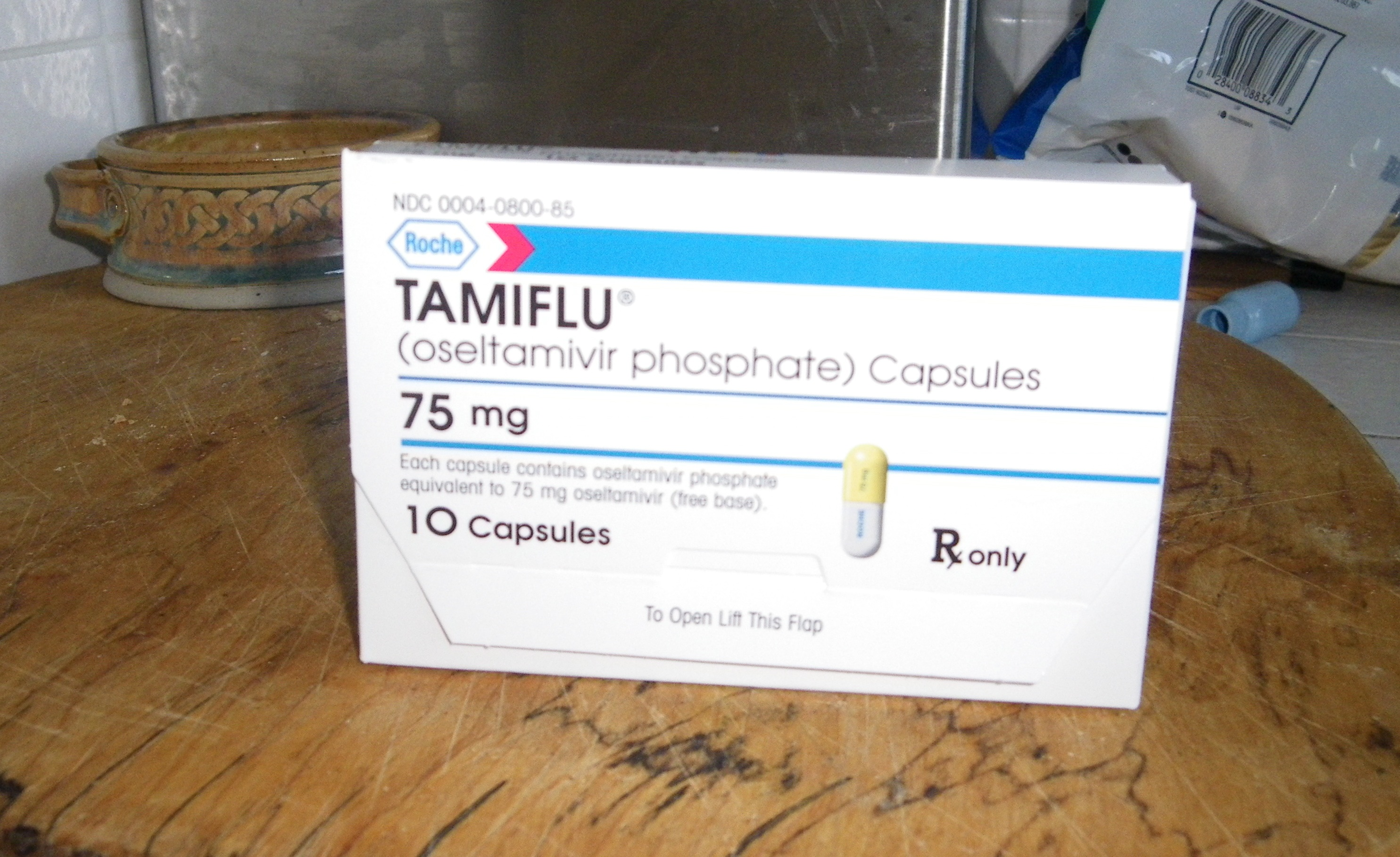 A box of Tamiflu® (Oseltamivir Phosphate) capsules, as provided for the US market